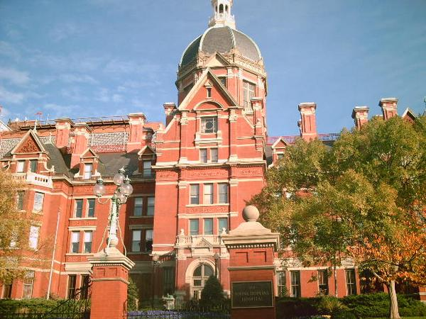 Johns Hopkins Hospital Complex